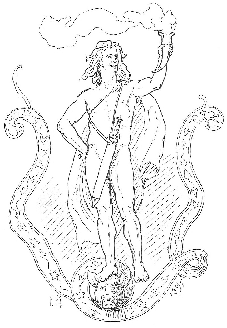 Freyja's faithful servant Óttar holds a memory drought so that he may retain his newly-gained knowledge of his lineage while standing atop what presumably is the head of the boar Hildisvíni, which he was disguised as. The title page illustration of this translation of Hyndluljóð.